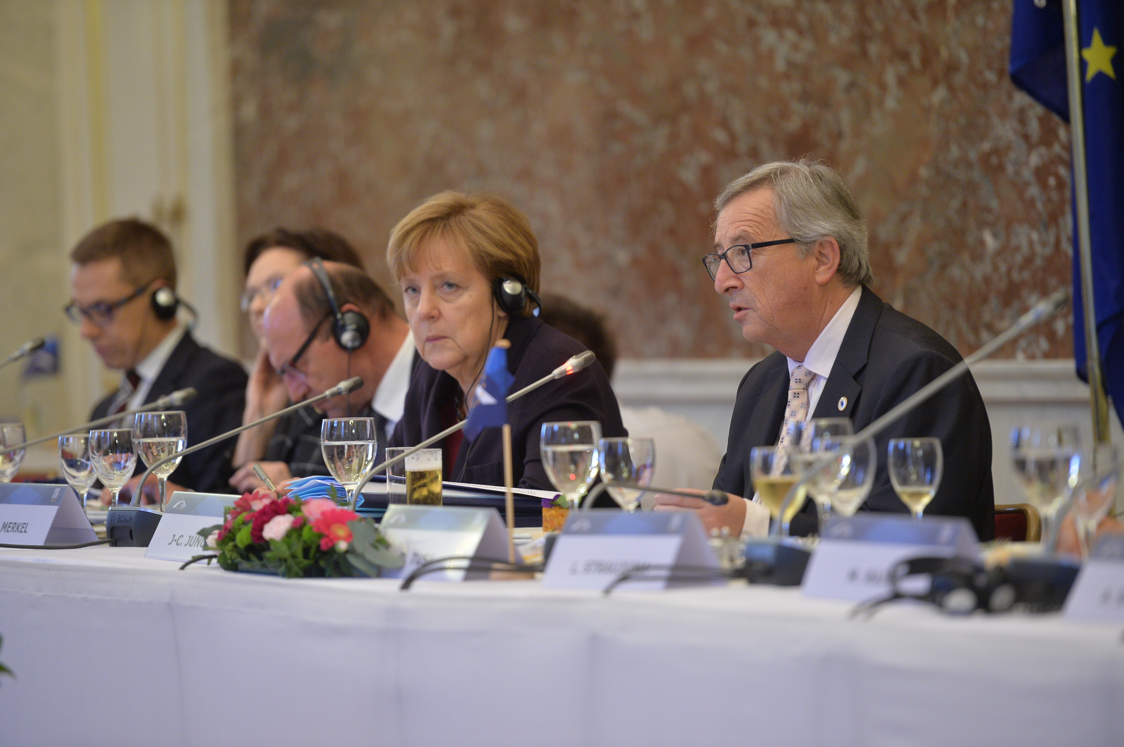 European People's Party